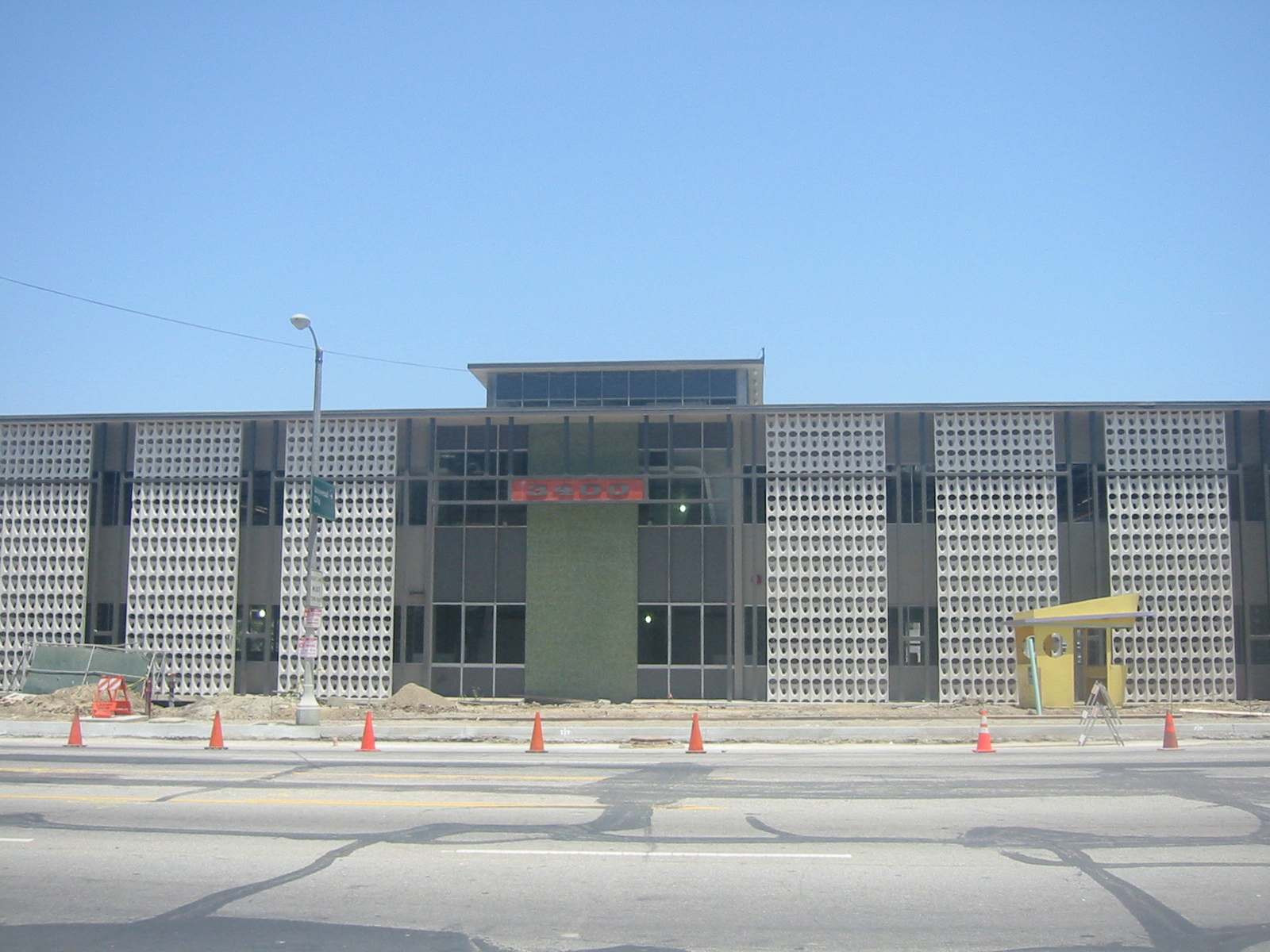 Hanna Barbera in Burbank, California, The former Hanna-Barbera building at 3400 Cahuenga Blvd. in Universal City, California